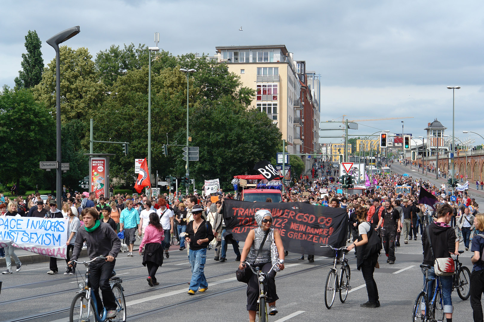 Alternative Pride March (Transgenialer CSD) in Berlin, 2009.